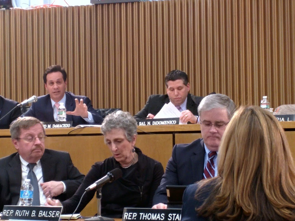 Photo of senator Vinny deMacedo, Ruth Balser, Thomas M. Stanley, and others during Massachusetts Ways and Means hearings.